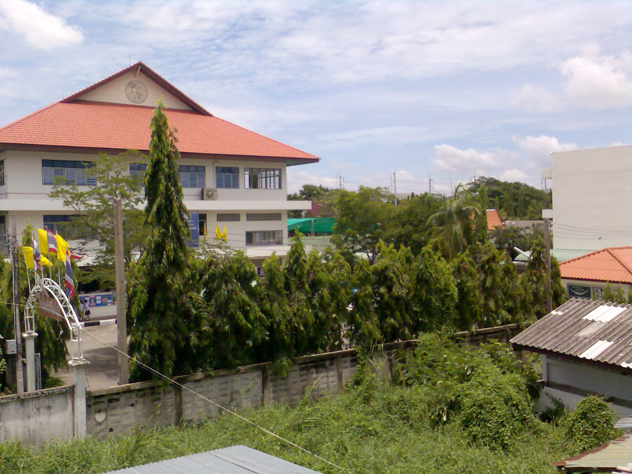 Chirdjermsil